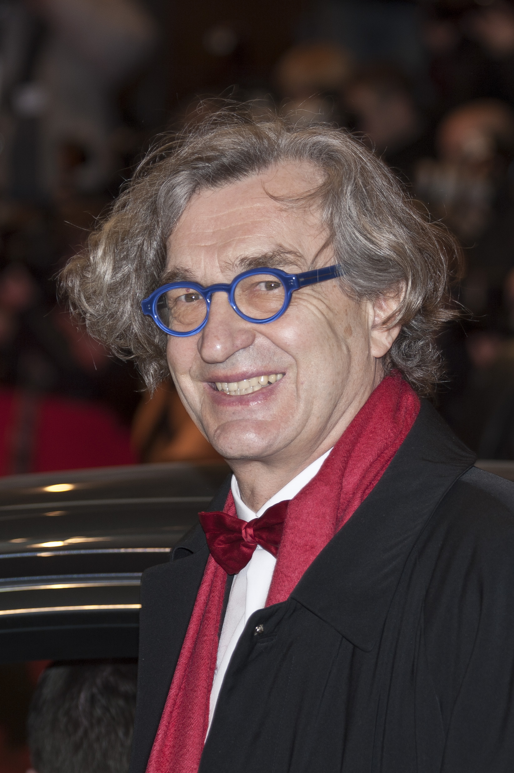 German director Wim Wenders arriving at the premiere of True Grit during the Berlin Film Festival 2011